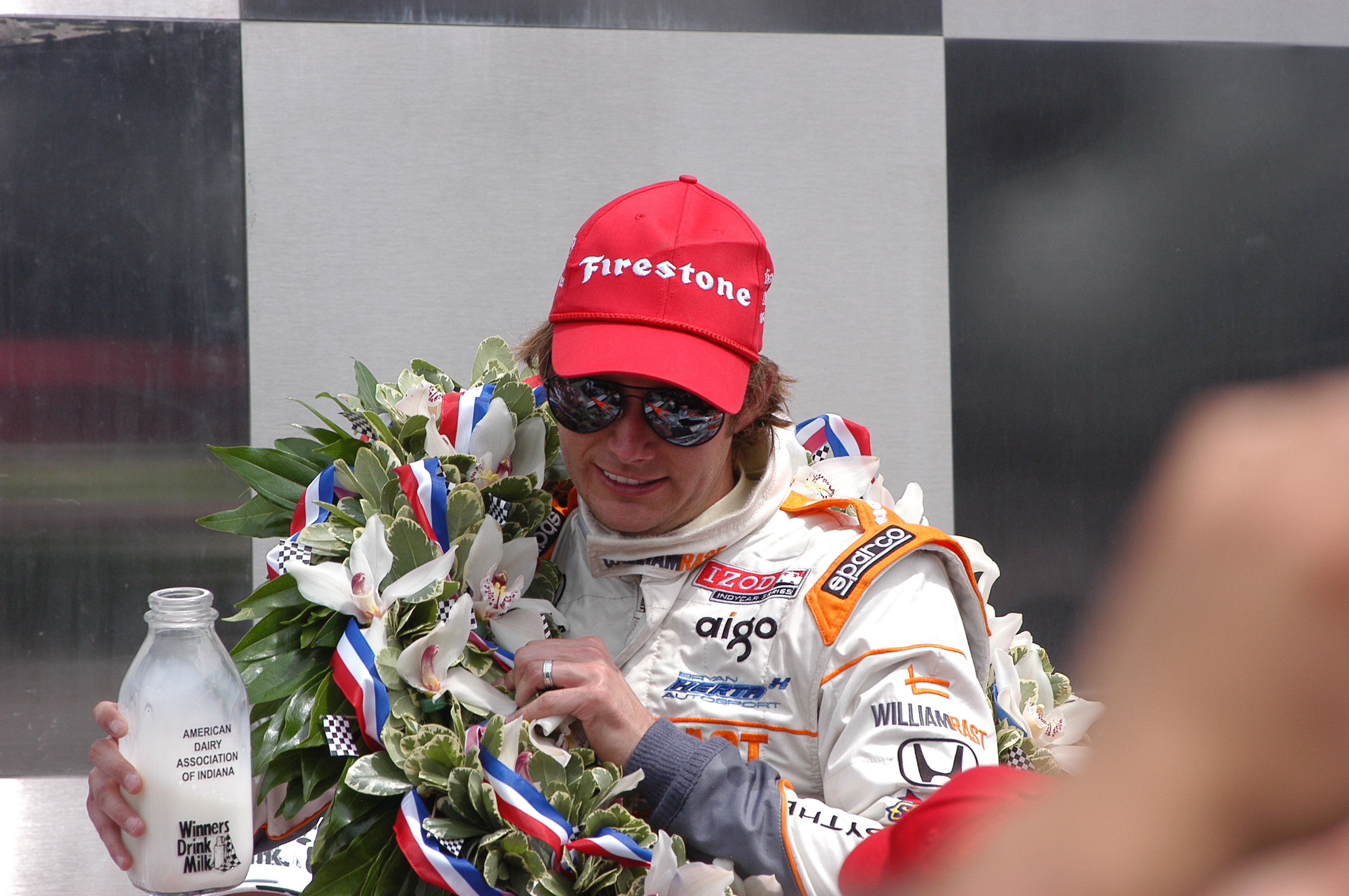 2011 500 champion Dan Wheldon